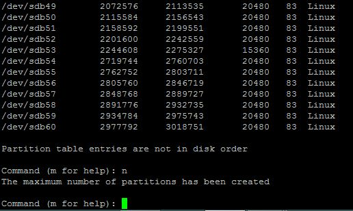 fdisk has maximum 60 partitions